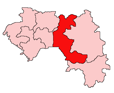 Map of Guinea showing Faranah Region. Created using the GIMP